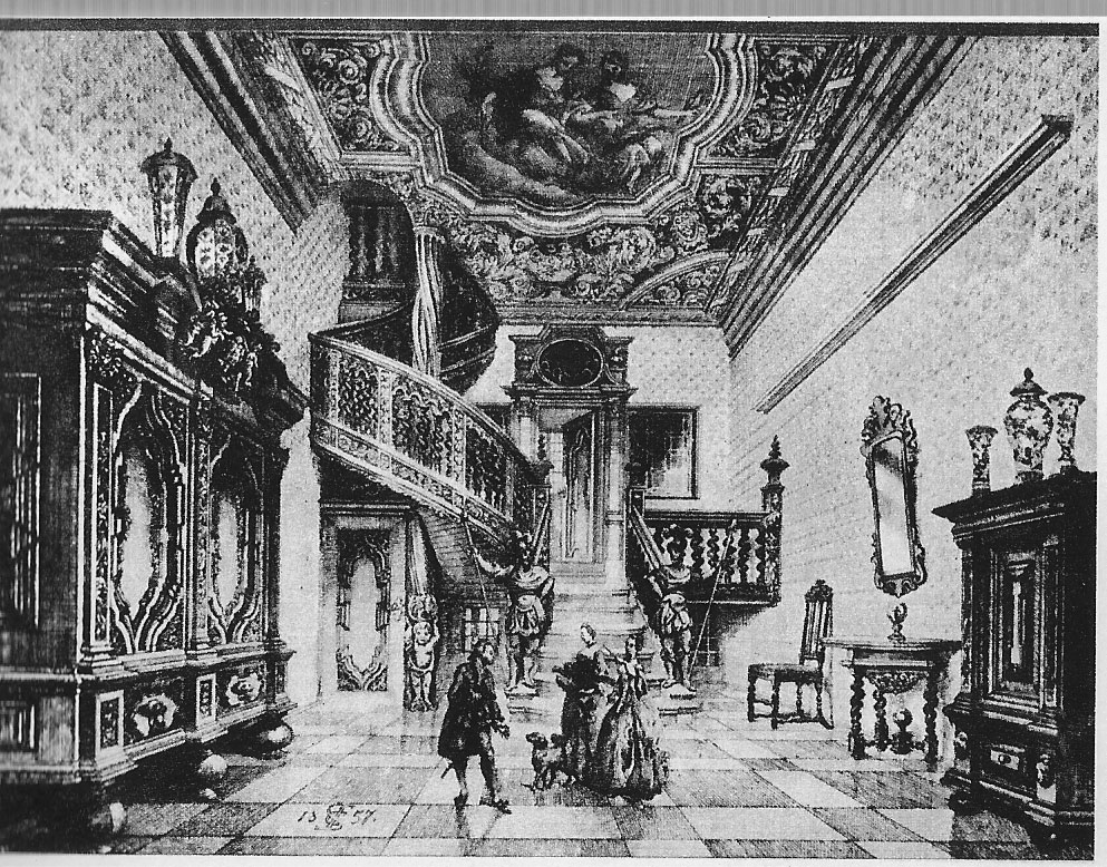 Gdansk Hall acc. Engraving J.K. Schultz from 1857.